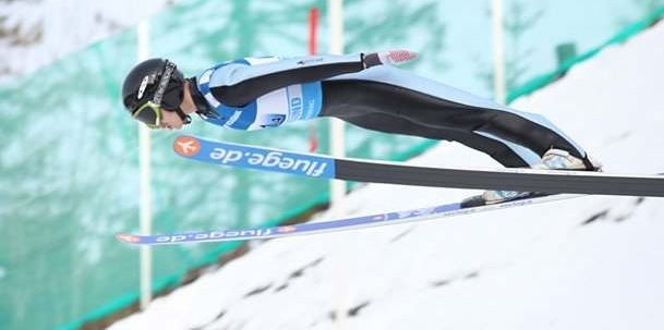 Rhadik Zhaparov during team competition of FIS Ski-Flying World Championships 2012.